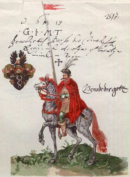 Hungarian valiant rider, 1613. (Picture of Benedictus Borso of Cernek.) Watercolour from the Egykoru album. Louis Ernst collection.